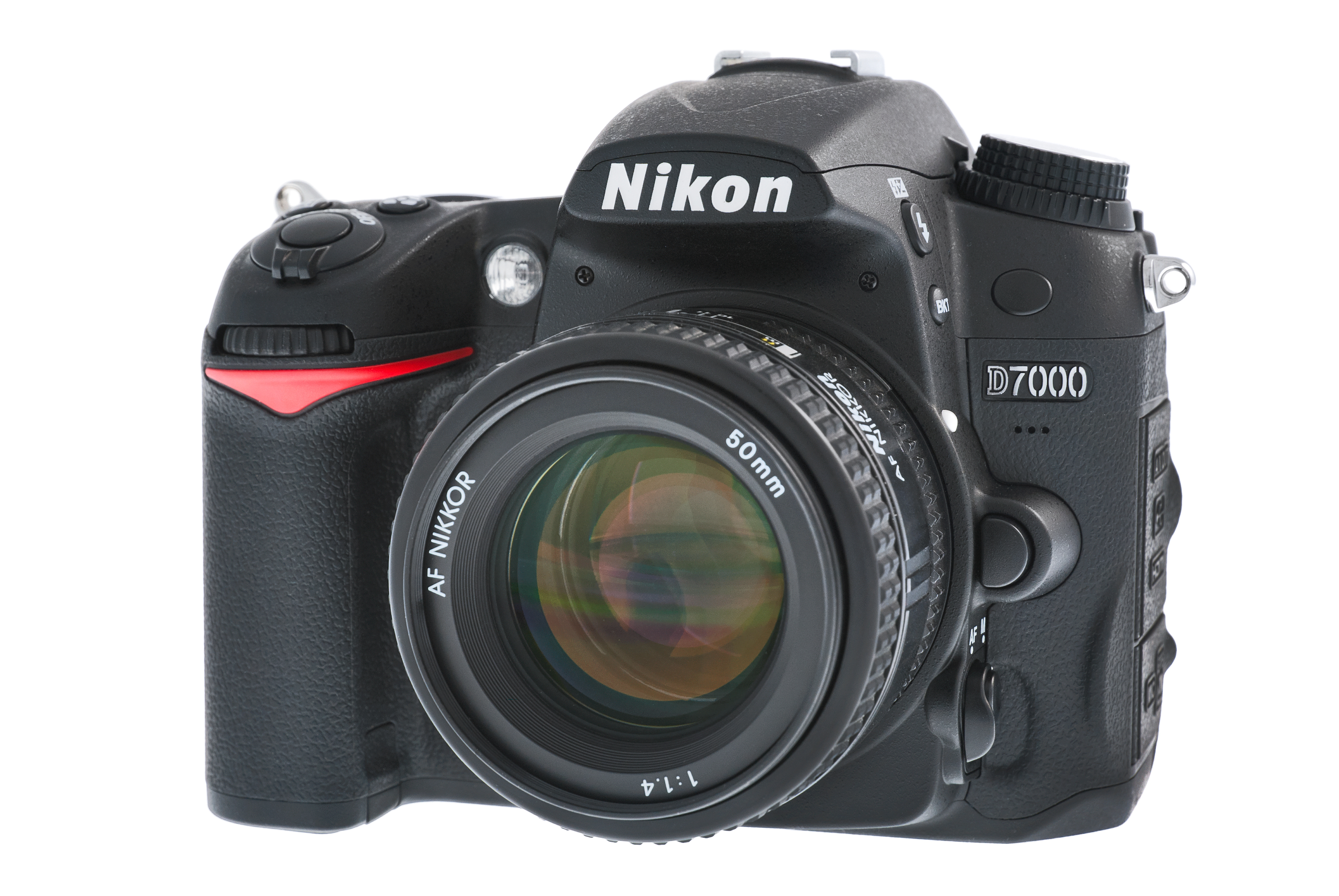 The Nikon D7000 is a 16.2 megapixel digital single-lens reflex camera. In the picture it is shown with a 50mm/1.4 AF-D NIKKOR lens.